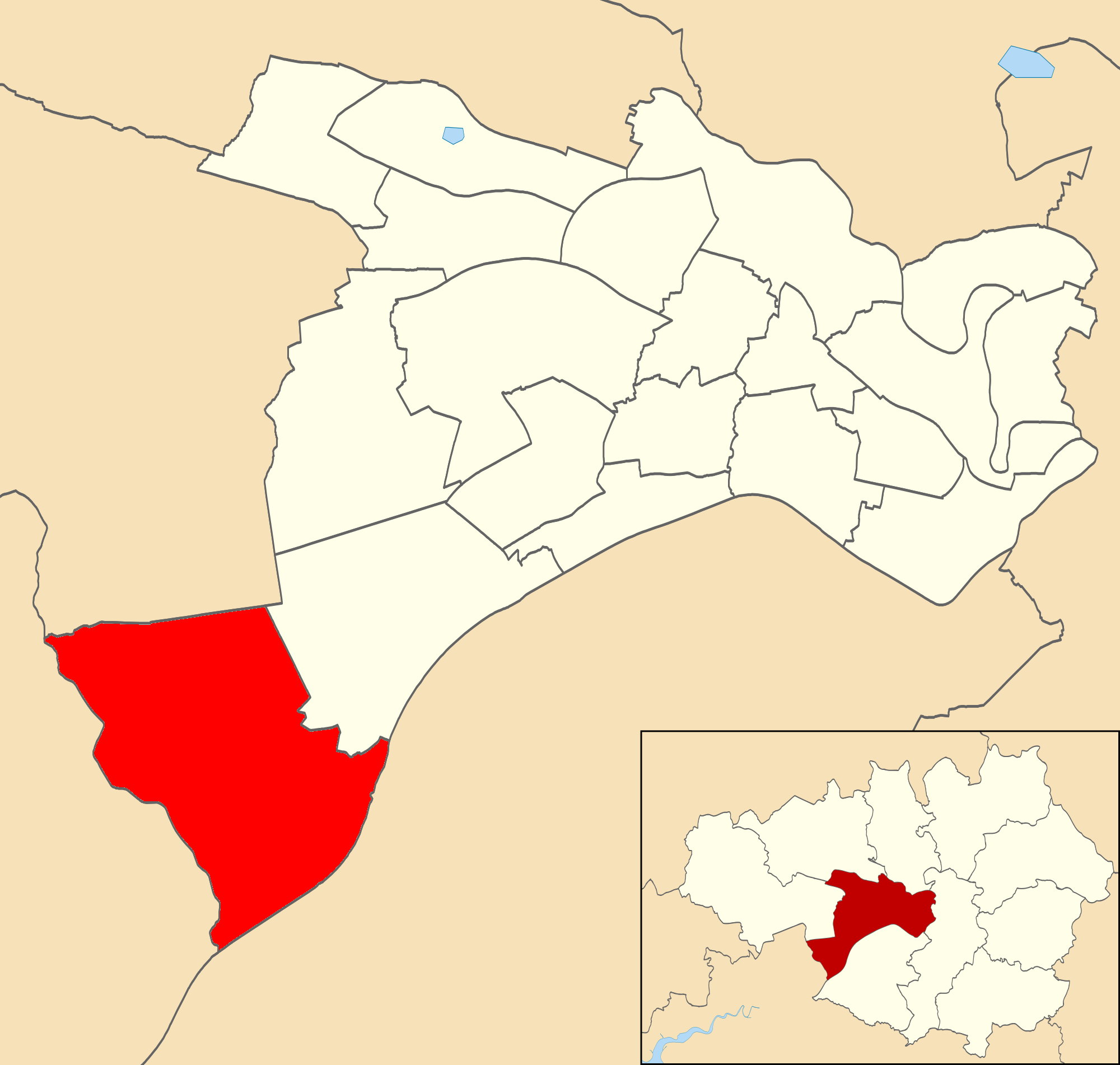 Map showing location of Cadishead ward within Salford City Council.